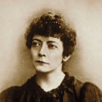 Photo portrait of "Kit Coleman", Kathleen Blake Coleman, world's first accredited female war correspondent for Spanish-American War of 1898